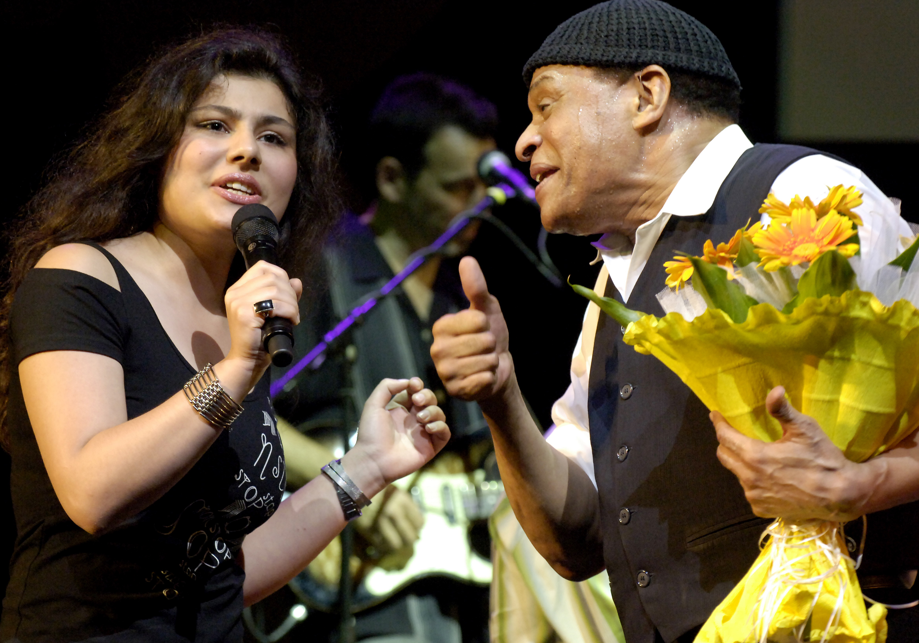 Al Jarreau with fan. Baku Jazz Festival 2006